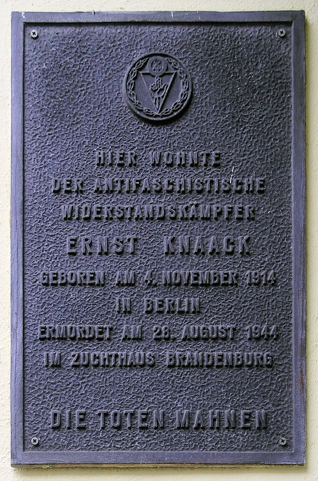 Memorial plaque, Ernst Knaack, Kastanienallee 16, Berlin-Prenzlauer Berg, Germany Koordinate:52°32′19″N 13°24′34″E / 52.53861°N 13.40944°E